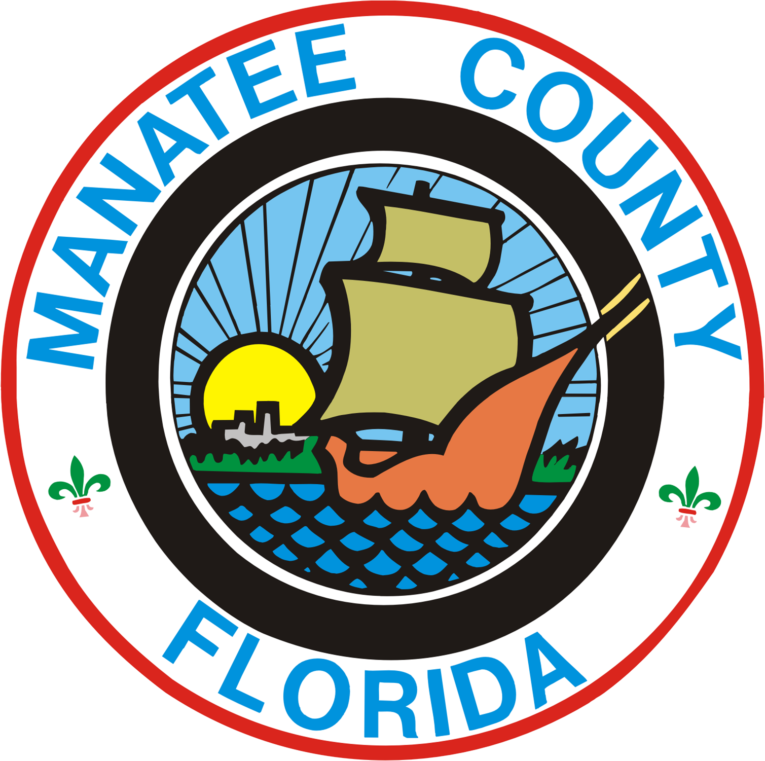 Seal of the county